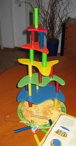 Villa Paletti, Villa Paletti won the 2002 Spiel des Jahres award